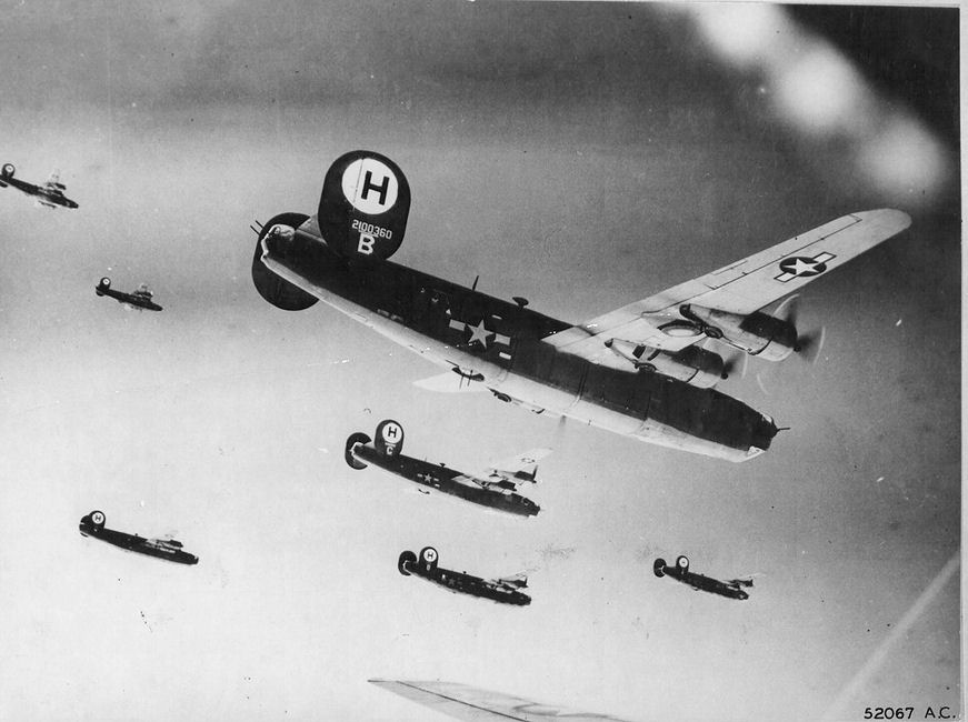 446th Bomb Group Gotha,Germany mission. "Luck and Stuff" B-24J-95-CO Liberator s/n 42-100360 706th BS, 446th BG, 8th AF Shot down by fighters after losing ann engine and falling behind the formation during the April 29,1944 mission to Berlin. MACR 4485